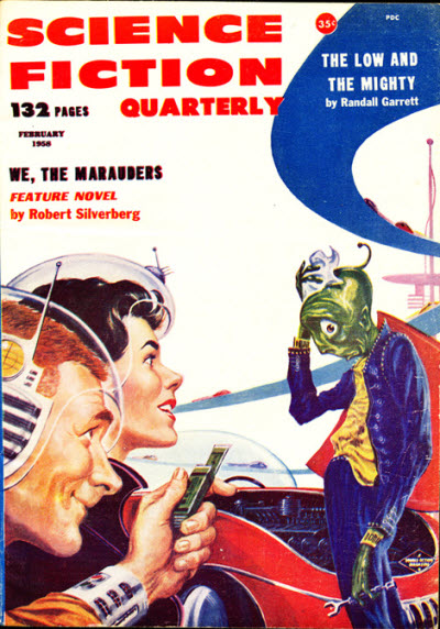 Cover, Science Fiction Quarterly, February 1958